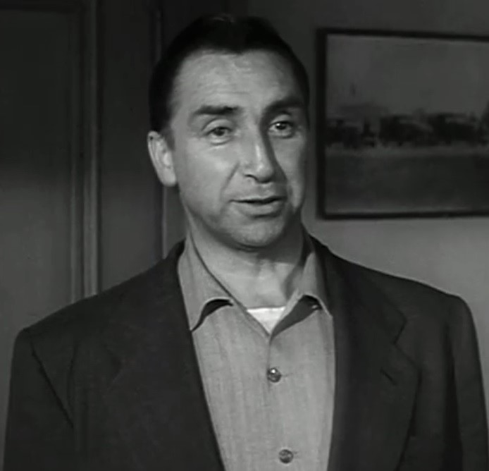 Horace McMahon in Detective Story - trailer (cropped screenshot)